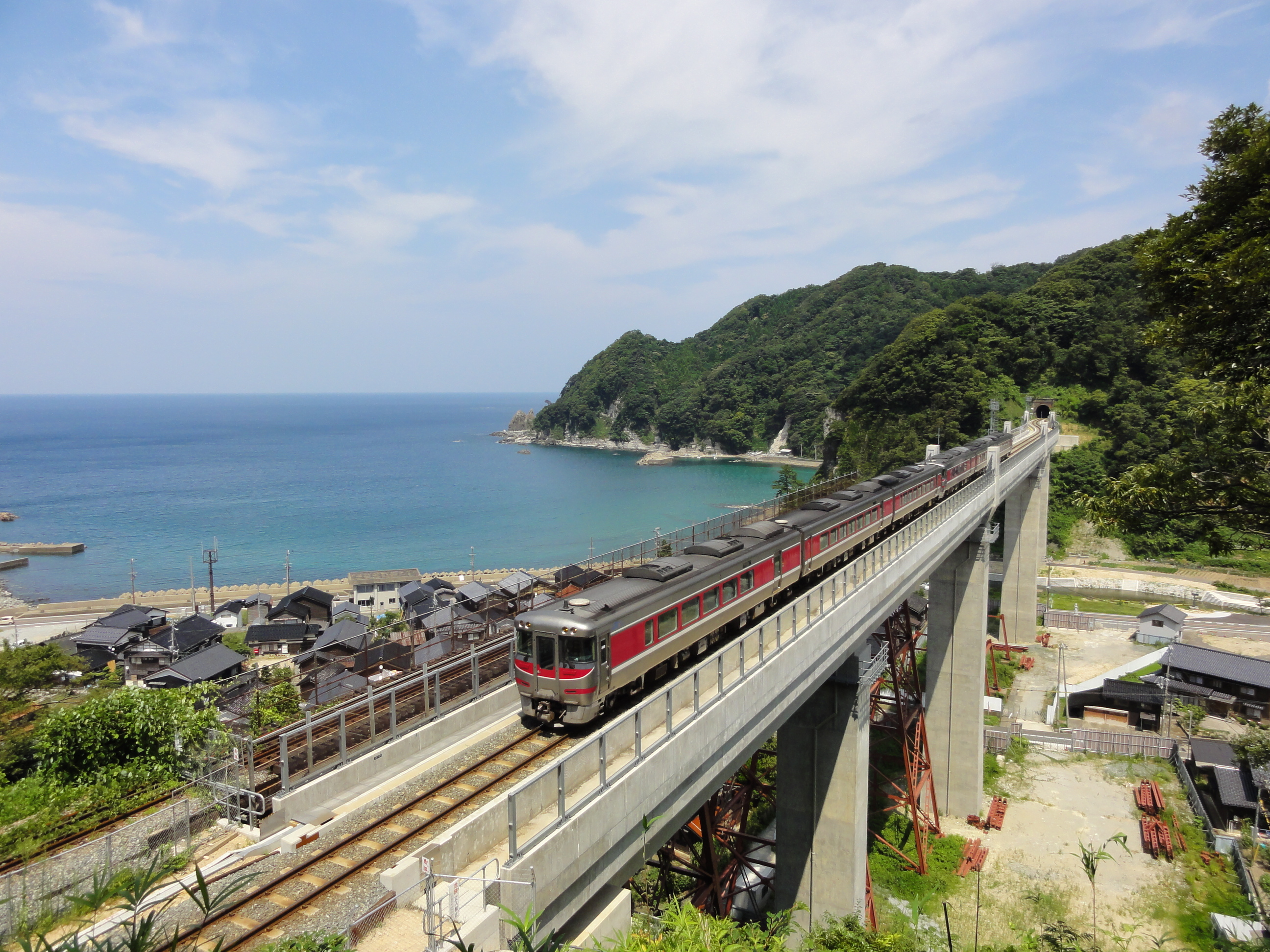 A JR West KiHa 189 series DMU on a Hamakaze limited express service crossing the Amarube Viaduct on the Sanin Main Line